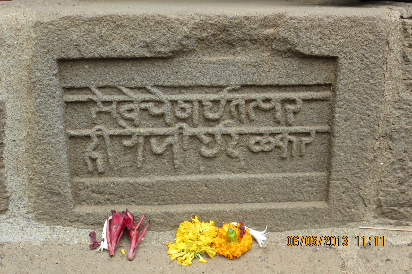 Raigad Fort